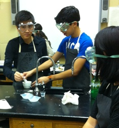 Garden School's two science labs provide students with ample opportunity for hands-on learning.